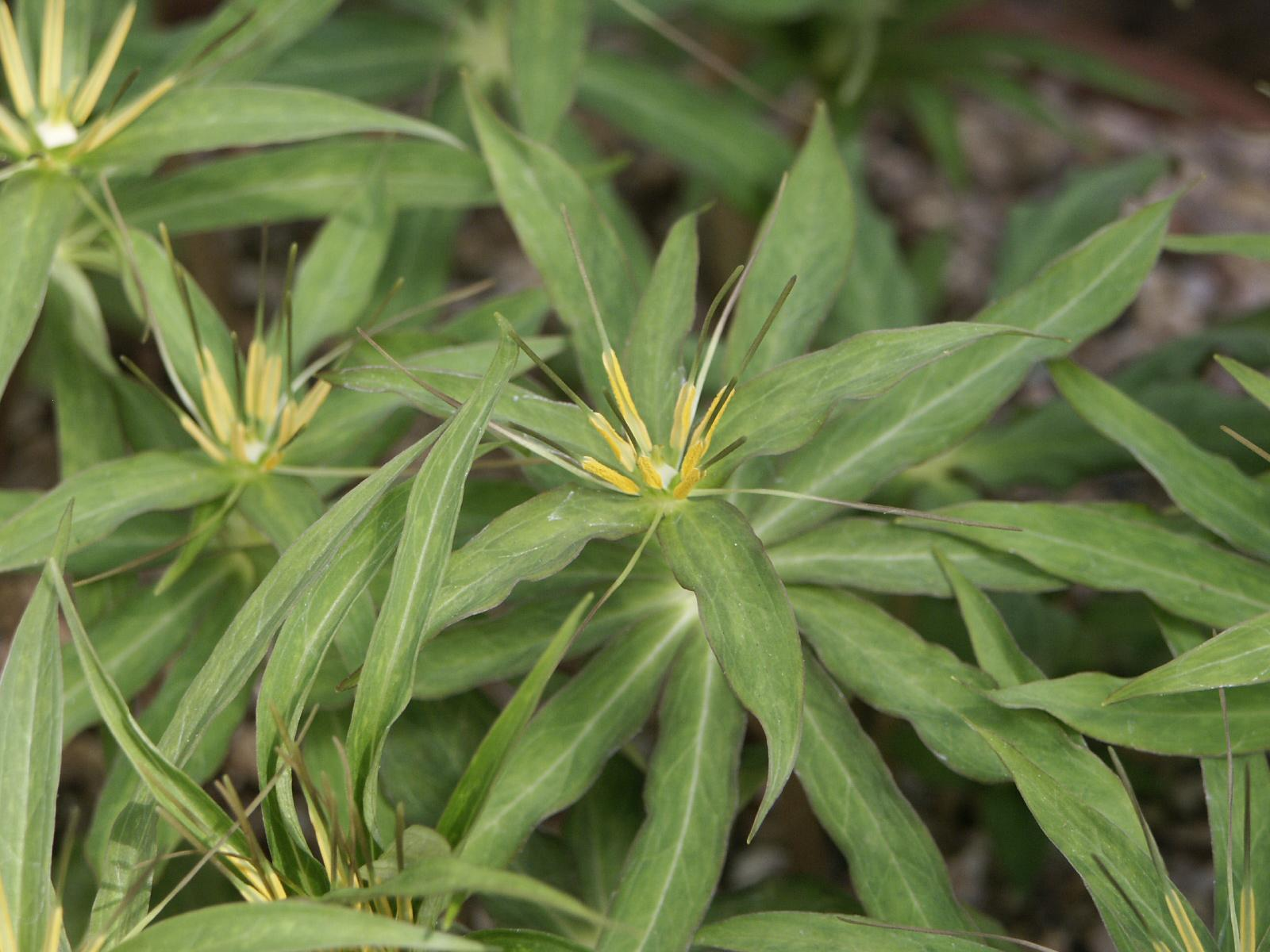 Paris thibetica in Royal Botanic Gardens, Kew, UK